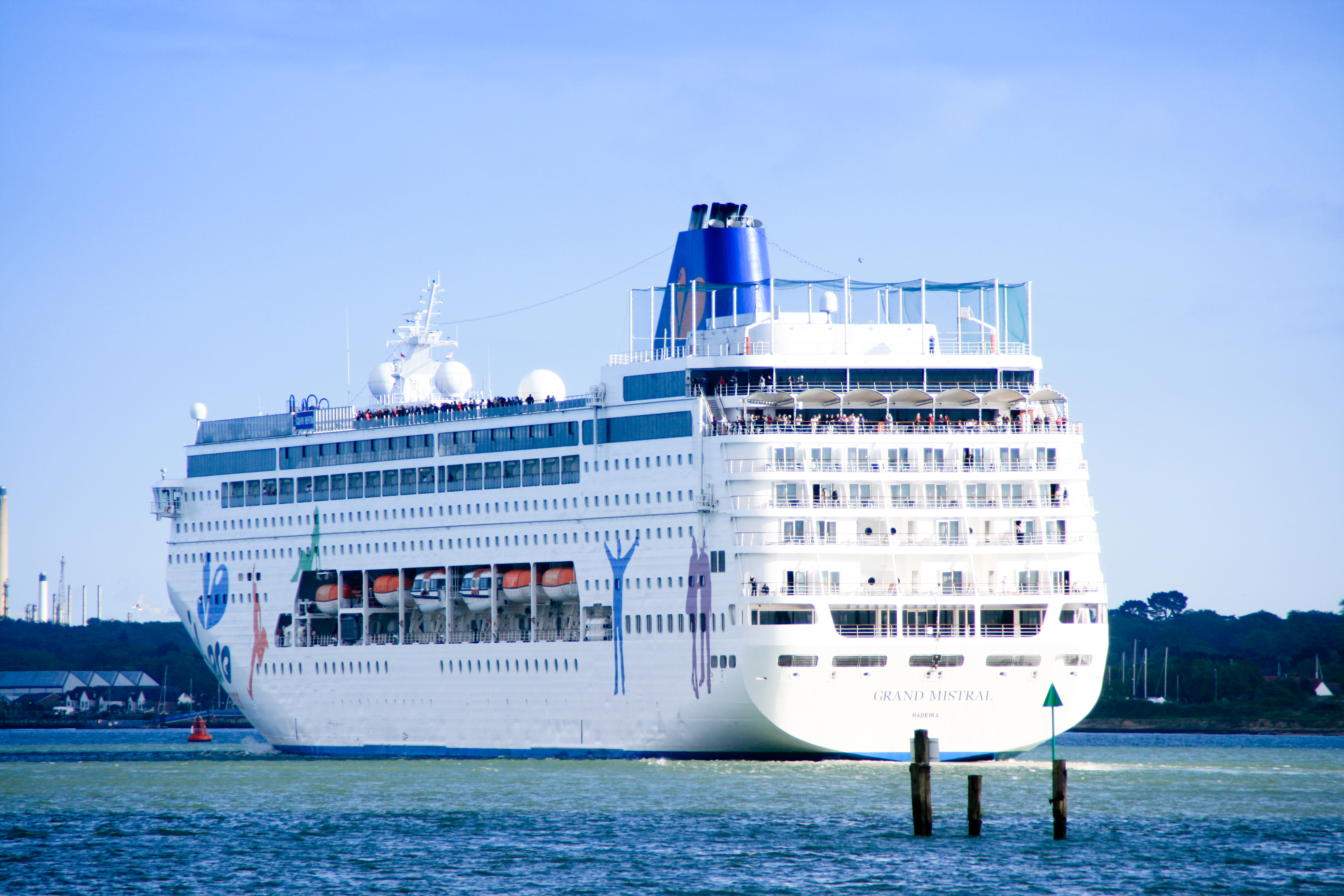 Iberocruceros cruise ship MS Grand Mistral departing from 101 berth Southampton Docks 15 May 2013 bound for Amsterdam. Image uploaded by me User:George.Hutchinson from a photograph taken by and supplied by Brian Burnell. Wikipedia editors are reminded that the copyright remains with the photographer, and that the terms of the Creative Commons licence; that allow editors to reuse this image apply to Wikipedia editors also, as they do to other re-users of this image. Breaches of the licence terms are not only unlawful, but are also antisocial, in that breaches discourage photographers from making their images freely available to everyone without payment. Wikipedia re-users are also reminded of the license terms that derivatives of this image should not imply that the adaptation is endorsed or approved by the author or copyright holder. Neither should derivatives be presented as the creation of the author or copyright holder, while clearly stating that the adaptation is a derivative of the original. Attribution online should be in this format Brian Burnell. On the printed page, a simpler form is acceptable - example: "Image: Brian Burnell". Non-Wikipedia users are requested to advise Brian Burnell of its use other than on Wikipedia.